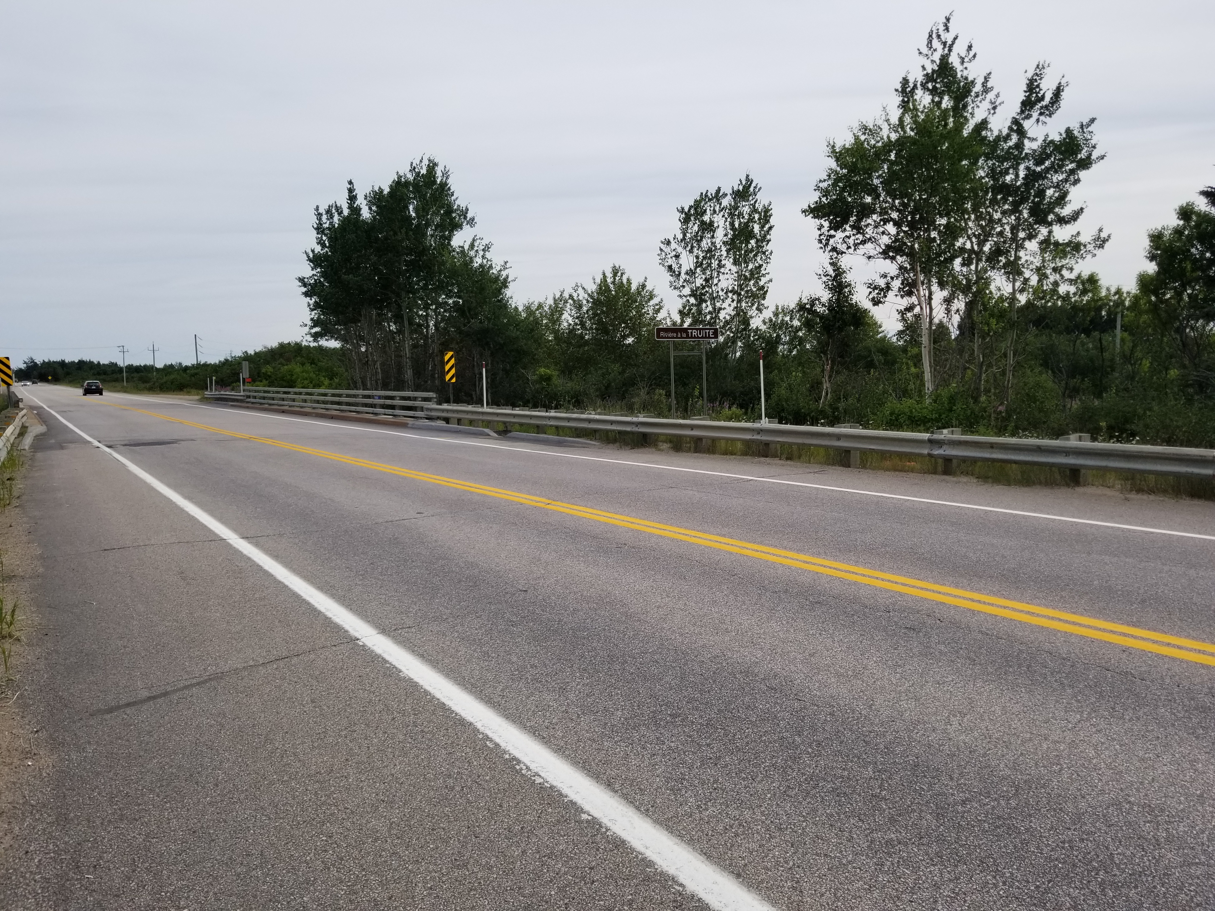 Highway 138 bridge spanning the "Rivière à la Truite" (Trout River) (La Haute-Côte-Nord).